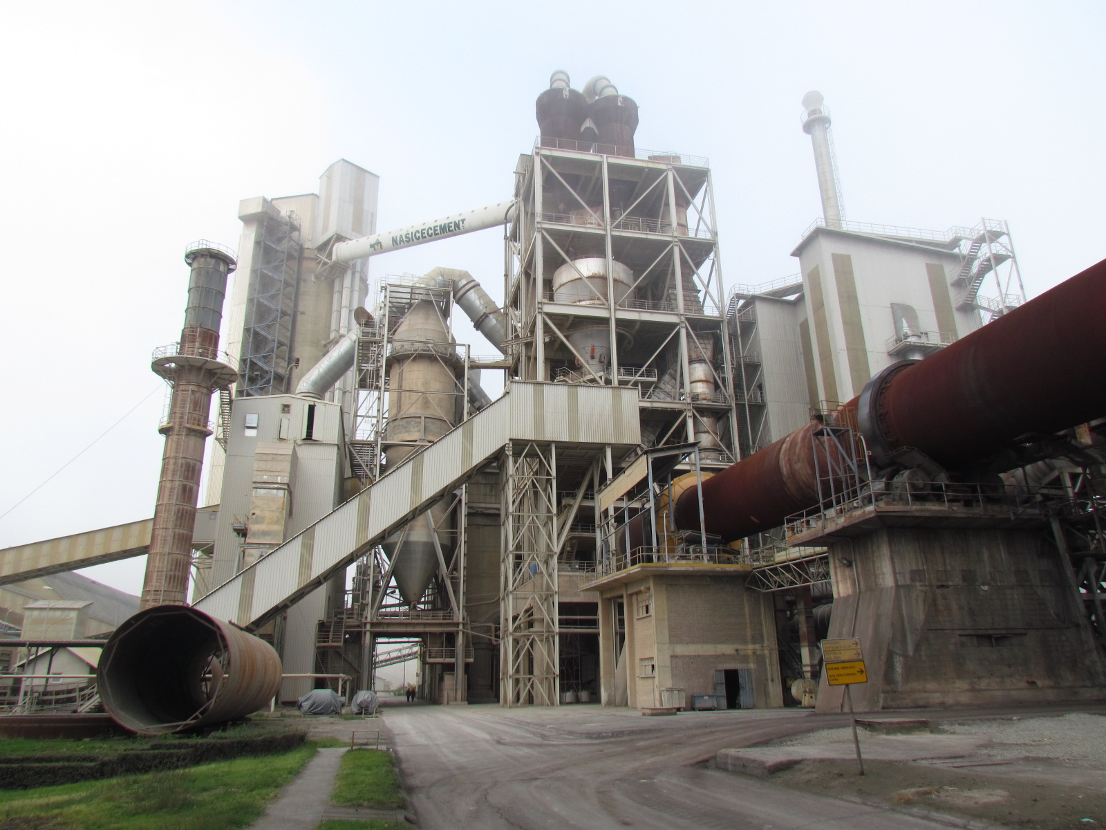 Našice cement